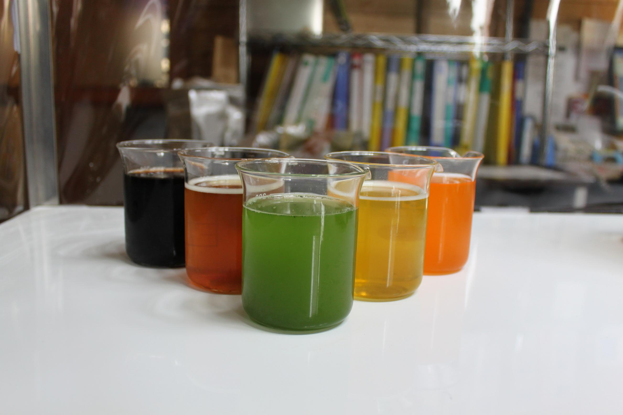 instant tea